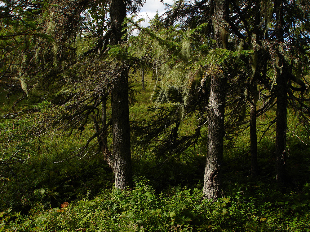 Old Man's Beard, Dolichousnea longissima, on spruce in the nature reserve Stakamyrant in Örnsköldsvik Municipality, Sweden.